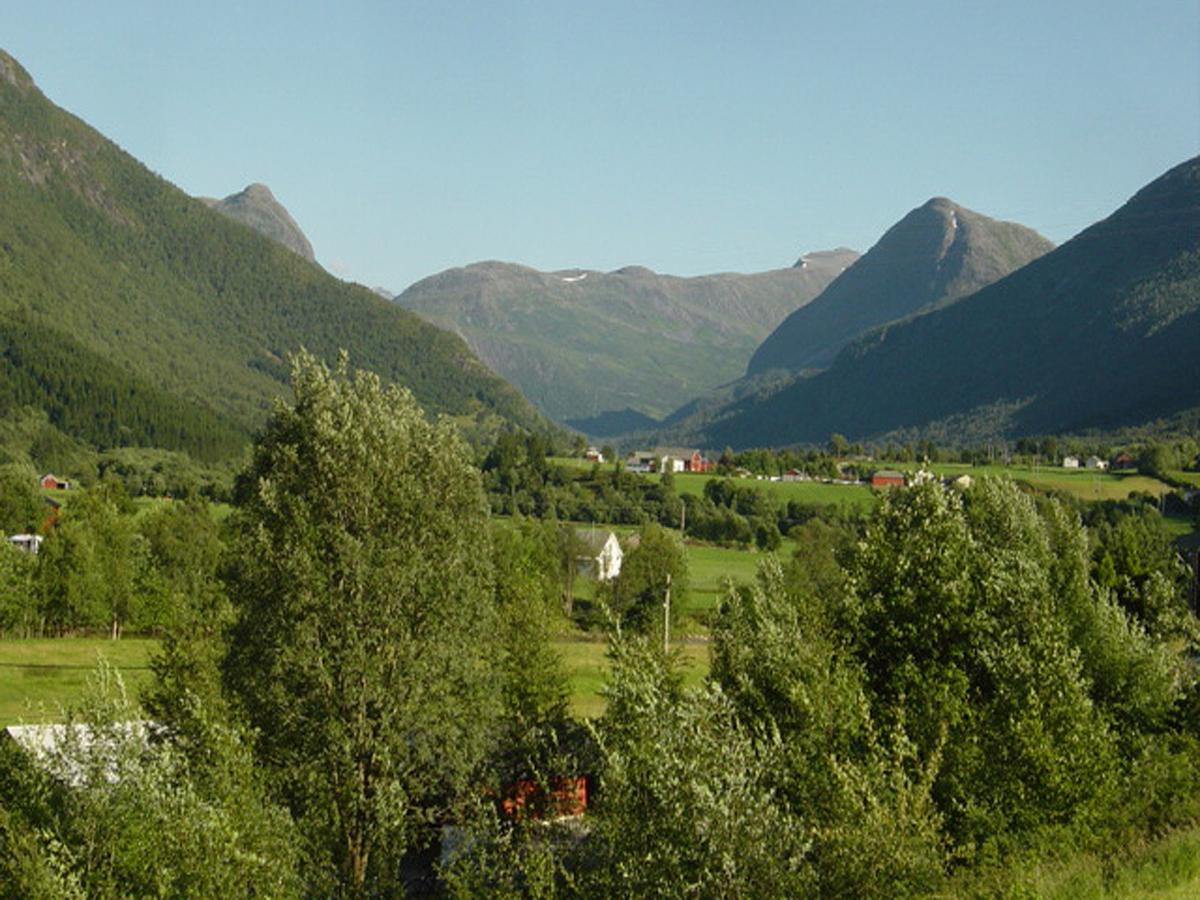 From Nesset and the Vistdal